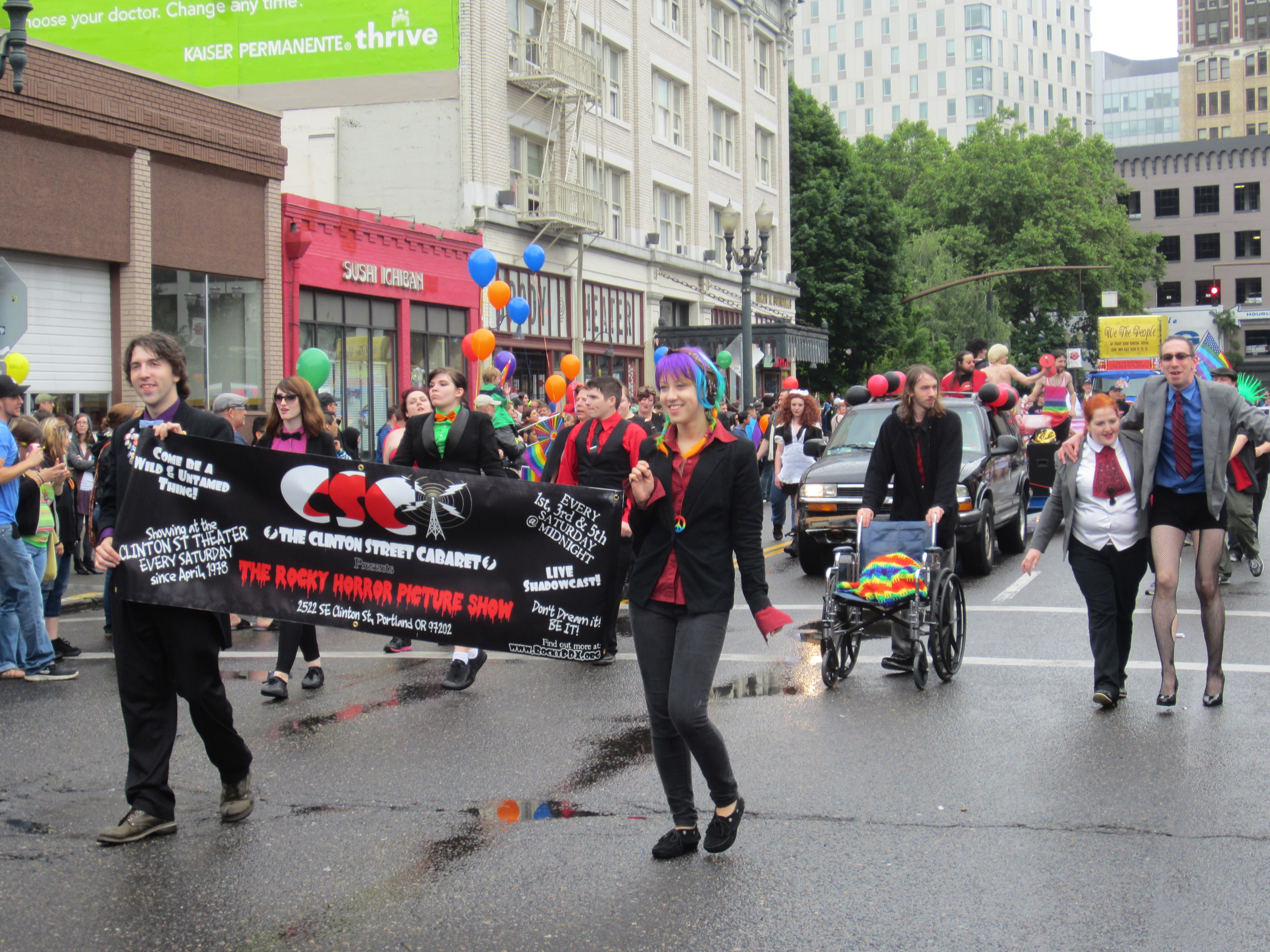 Portland Pride Parade (Oregon), June 14, 2014